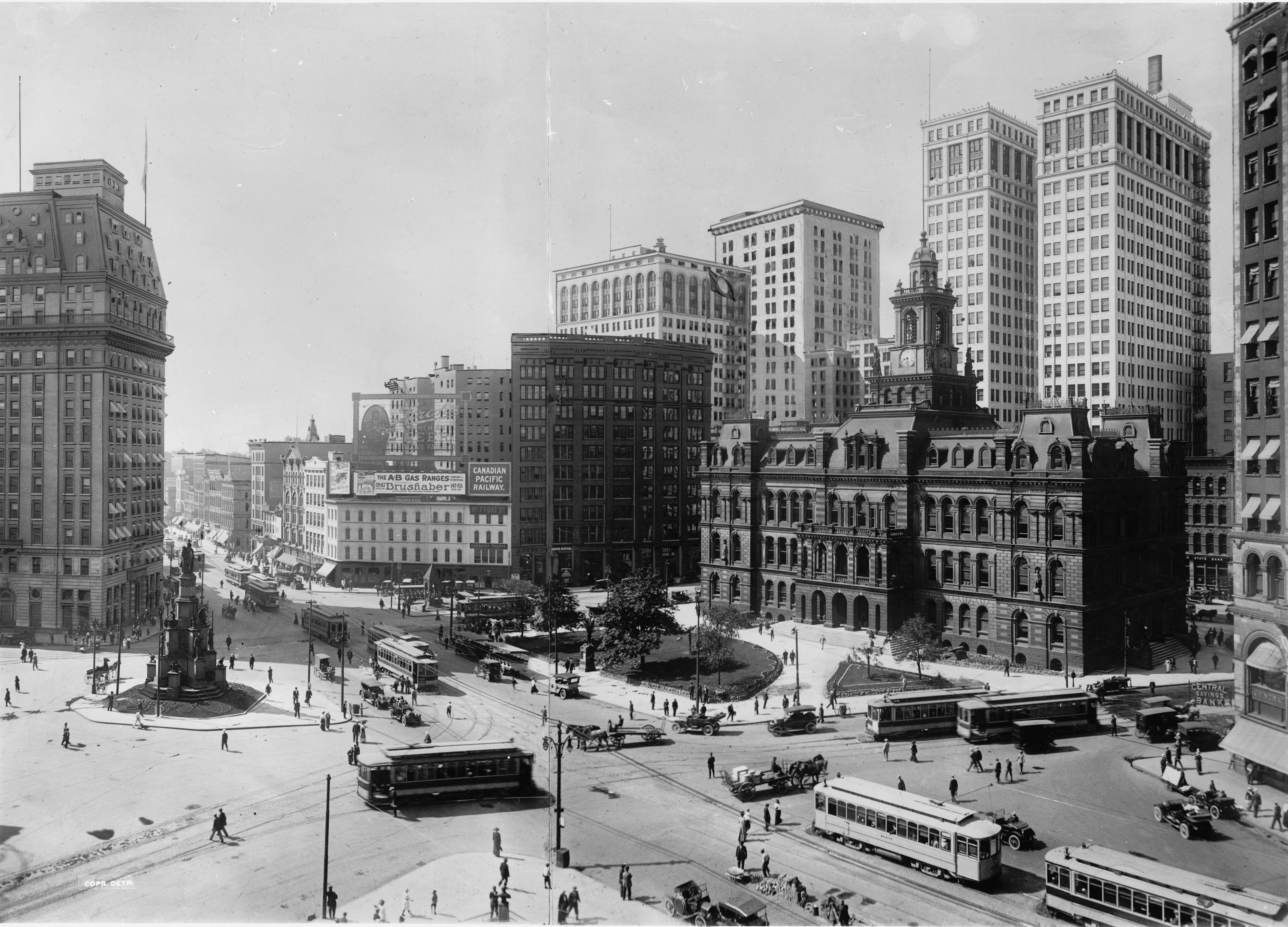 The Campus Martius in Detroit, Michigan, USA.